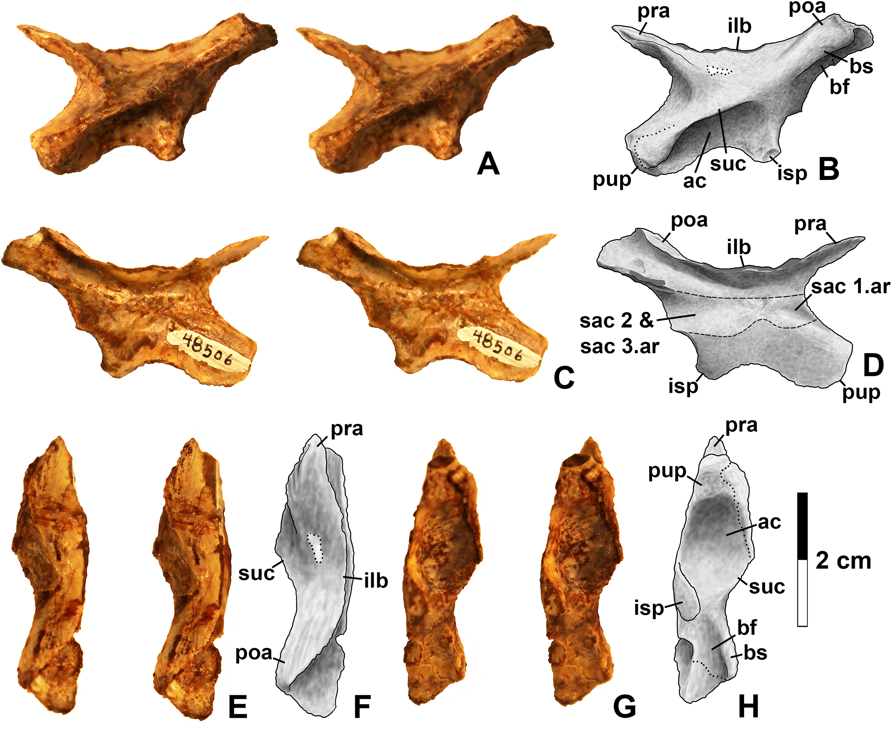 Figure 14: Kwansaurus williamparkeri left ilium (DMNH EPV.48506). (A) Stereopairs of lateral view, (B) interpretive drawing of same, (C) stereopairs of medial view, (D) interpretive drawing of same, (E) stereopairs of dorsal view, (F) interpretive drawing of same, (G) stereopairs of ventral view, (H) interpretive drawing of same. Dotted lines indicate breaks, dashed lines outline sacral rib attachments. Scale bar = 2 cm. ac = acetabulum bf = brevis fossa bs = brevis shelf ilb = iliac blade isp = ischial peduncle poa = postacetabular process pra = preacetabular process pup = pubic peduncle sac 2 = articulation for sacral #2 sac 3.ar = articulation for sacral #3 suc = supracetabular crest